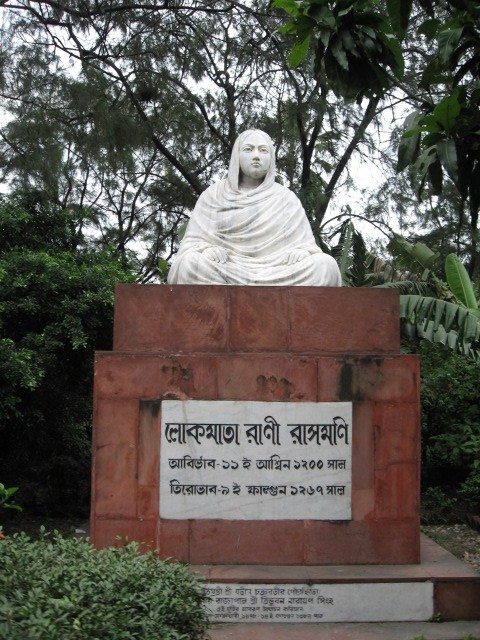 Own photograph